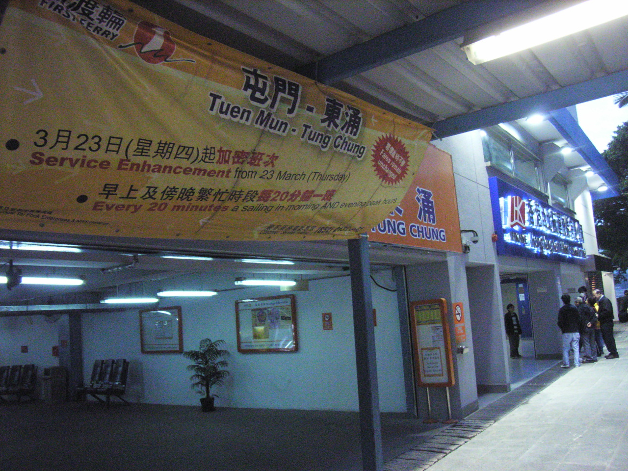 香港zh:屯門碼頭有跨境渡輪公司，也有zh:屯門至zh:東涌的短線客輪服務。 後者票價HK$15港元一位單程。 (Photo created by User:TUmuMATo)。